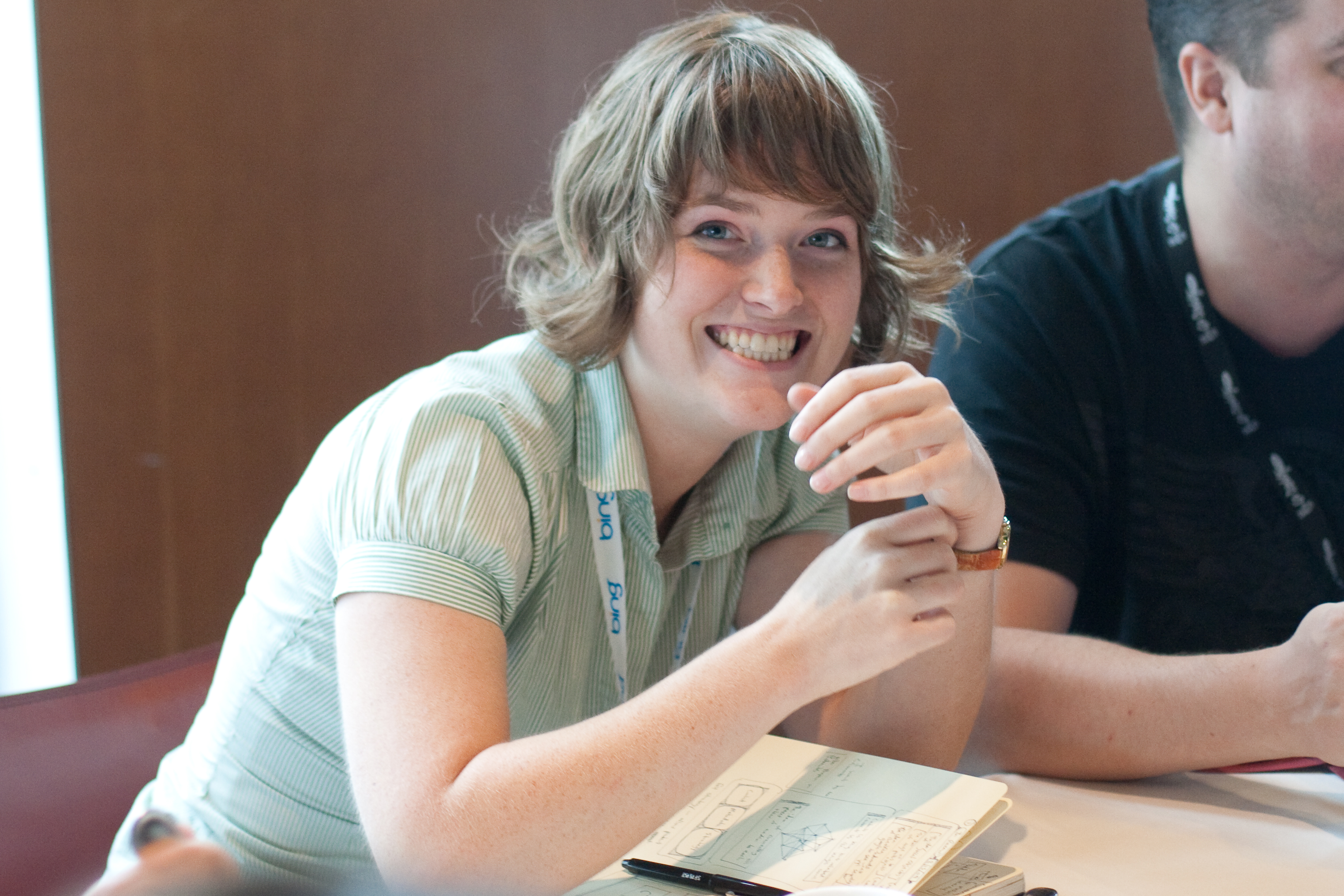 Amber Case (Portland, Oregon) is a Cyborg anthropologist, user experience designer and public speaker (CC) Randy Stewart, Feel free to use this picture. Please credit as shown. If you are a person that I have taken a photo of, it's yours (but I'd still be curious as to where it is).